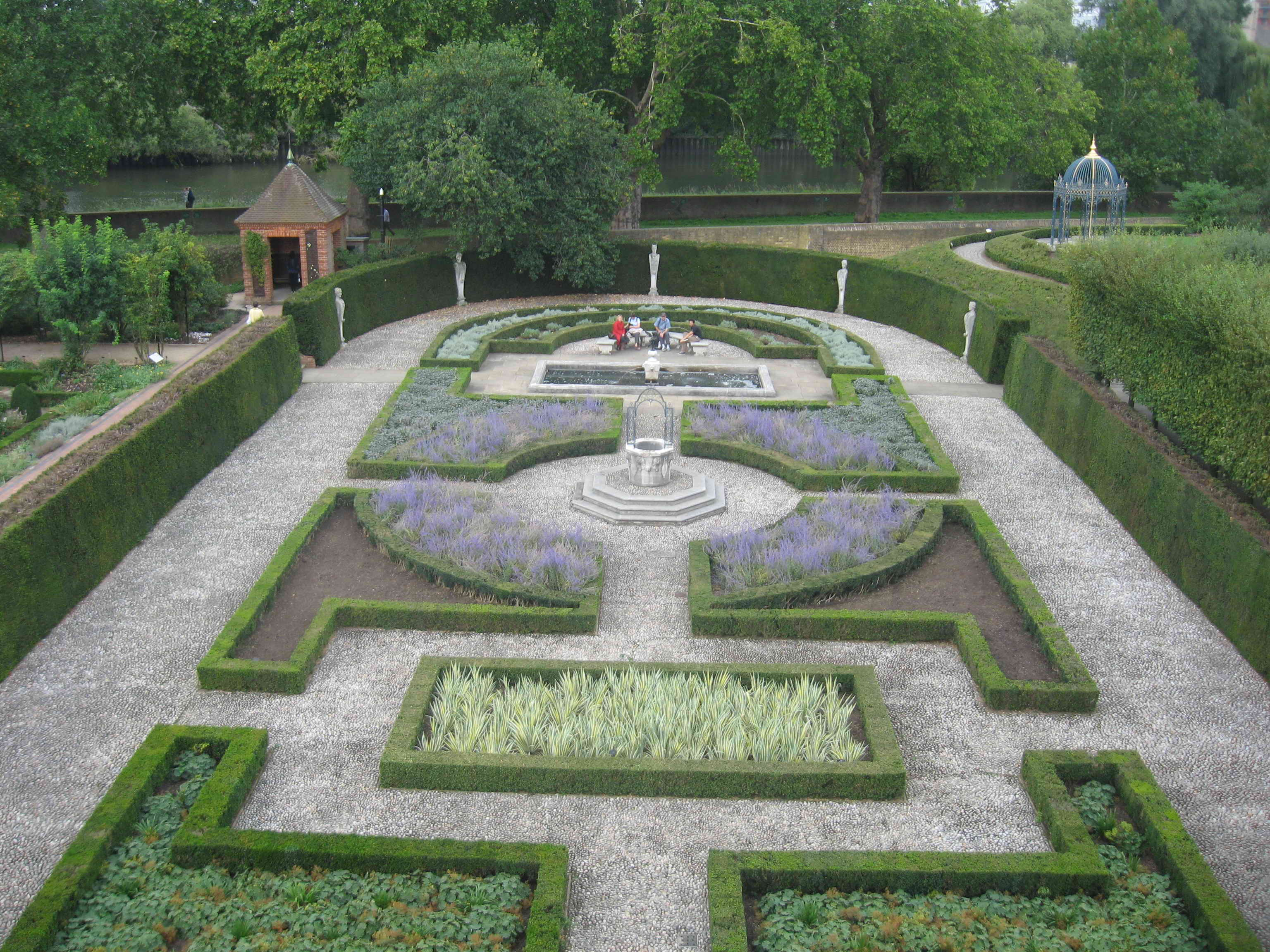 Kew: the Queen's Garden - the view from Kew Palace